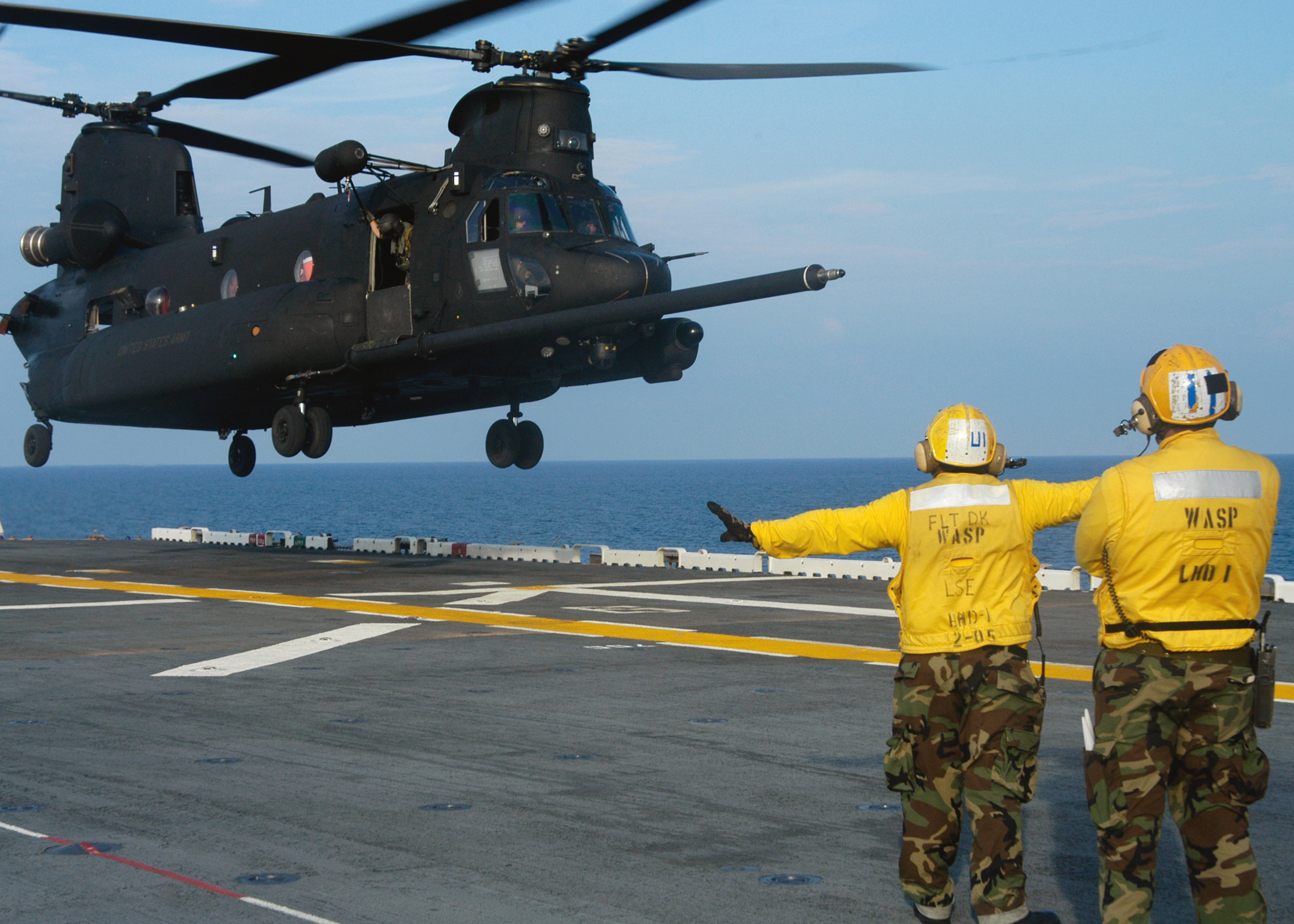 Atlantic Ocean (Aug. 08, 2005) - A U.S. Army MH-47 Chinook, assigned to the 160th Special Operations Aviation Regiment, departs from the flight deck aboard the amphibious assault ship USS Wasp (LHD 1) during the ship's deck landing qualification. The MH-47 Special Operations Aircraft is a long distance, heavy-lift helicopter, which is equipped with aerial refueling capability, a fast-rope rappelling system and other upgrades of operations-specific equipment. The pictured LSE is ABH3 Cody Baker. U.S. Navy photo by Photographer's Mate Airman Robbie Stirrup (RELEASED)